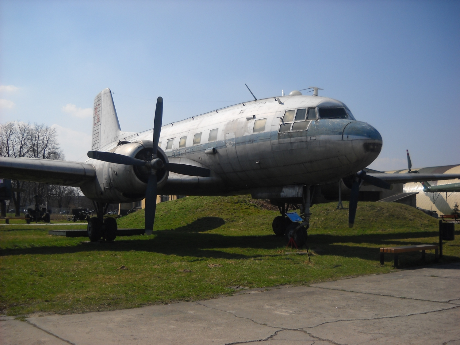 VEB Ilyushin Il-14 - Withdrawn Polish Air Force VIP aircraft in Polish Aviation Museum in Cracow